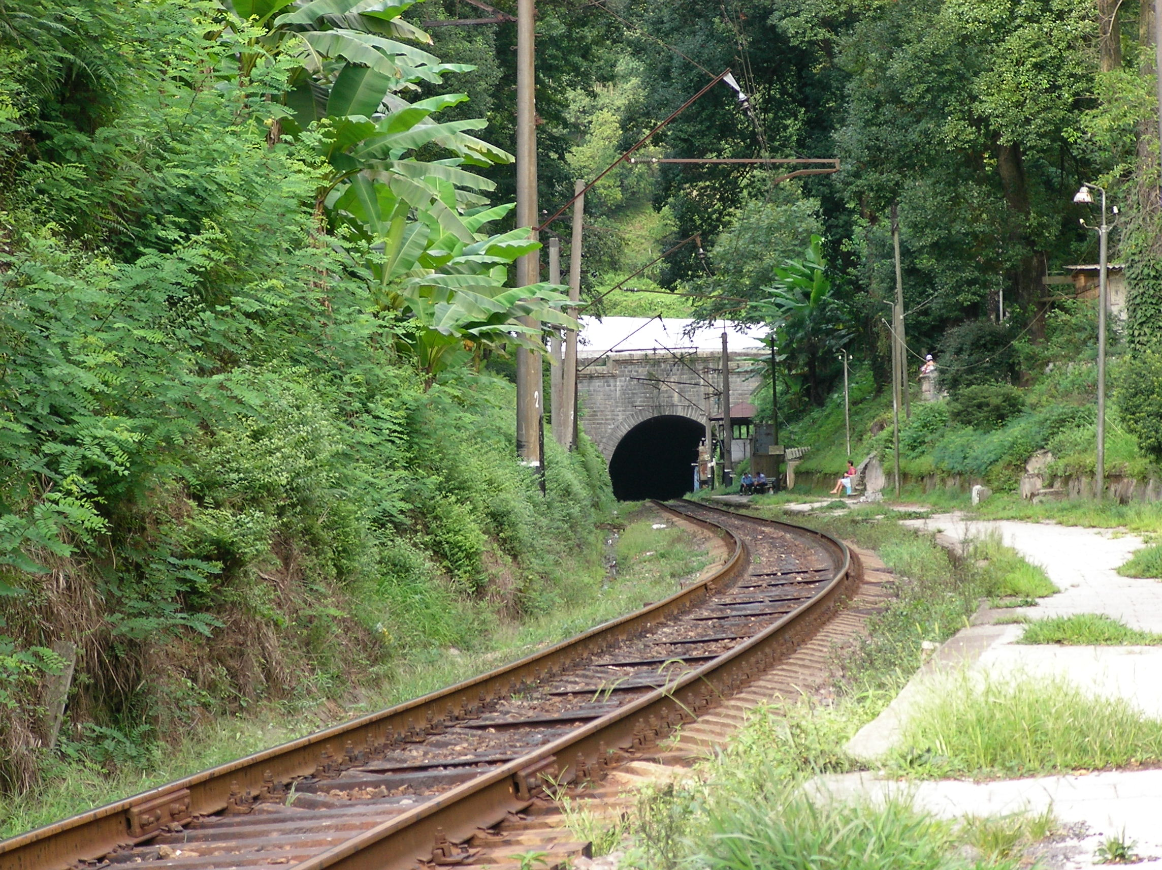 Rail tunel, Georgia